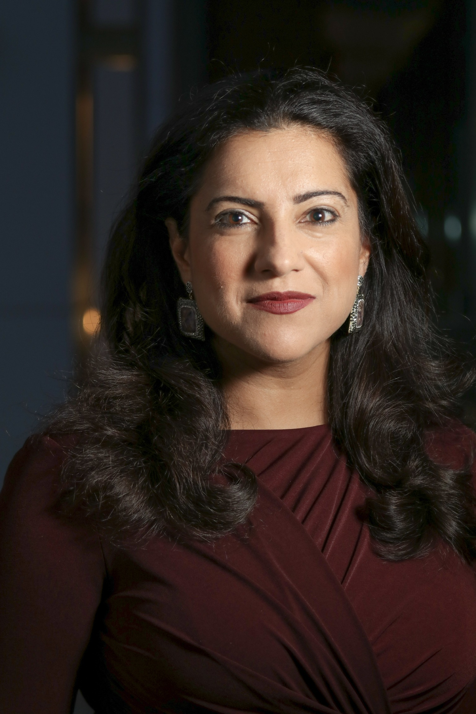 Reshma Saujani founder of Girls Who Code at Pratham USA gala in DC 2018